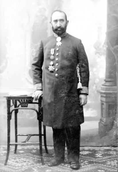 Musa Naghiyev